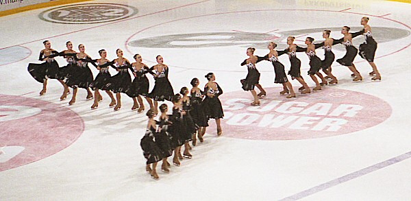 Marigold IceUnity, a Finnish synchronized skating group. Photo taken in 2005 Finnish National Championship, free program Photographed: Linnea Samila